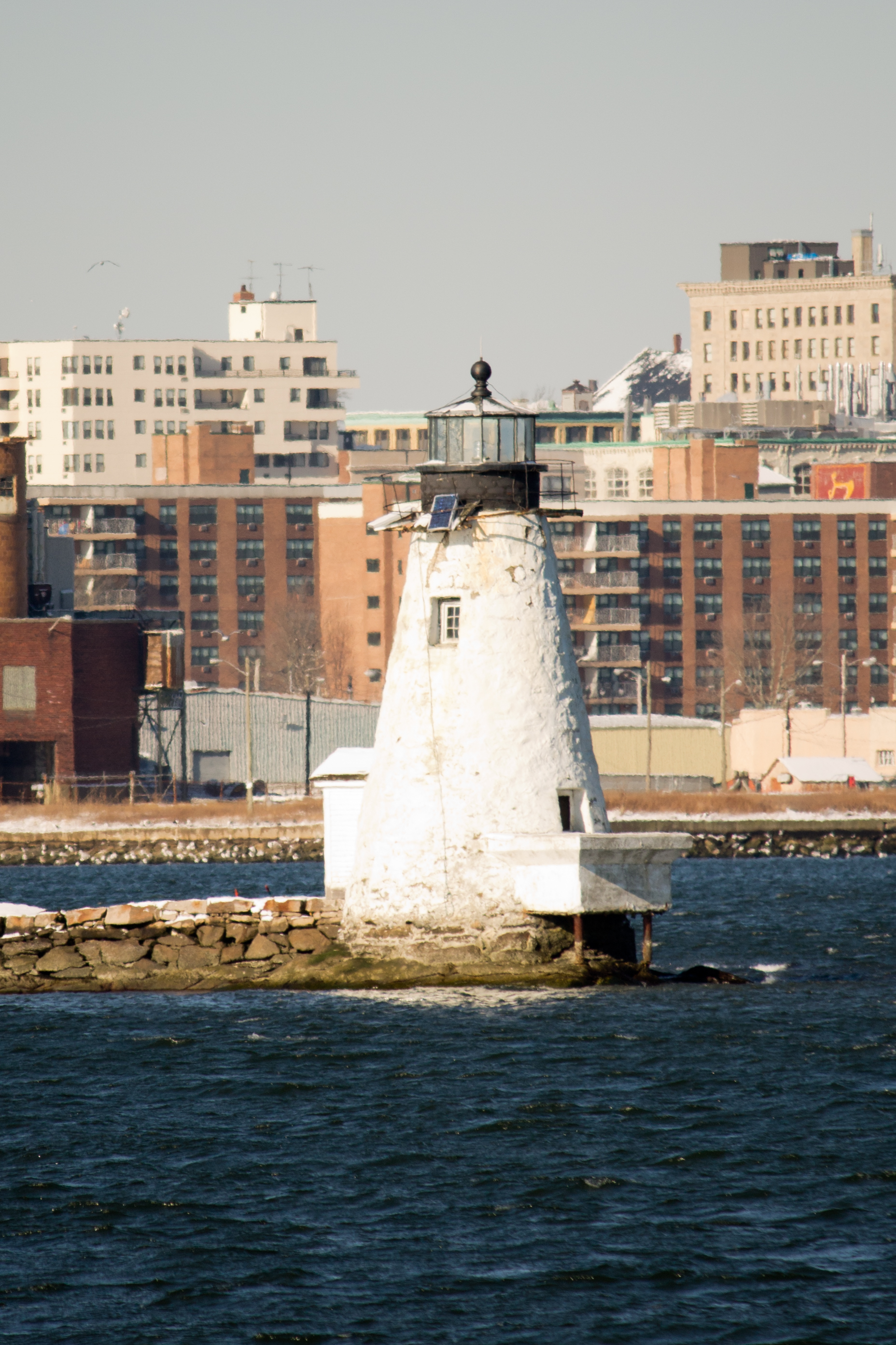 The Palmer Island Light House, of New Bedford, MA. Taken from the east in Fairhaven, MA.